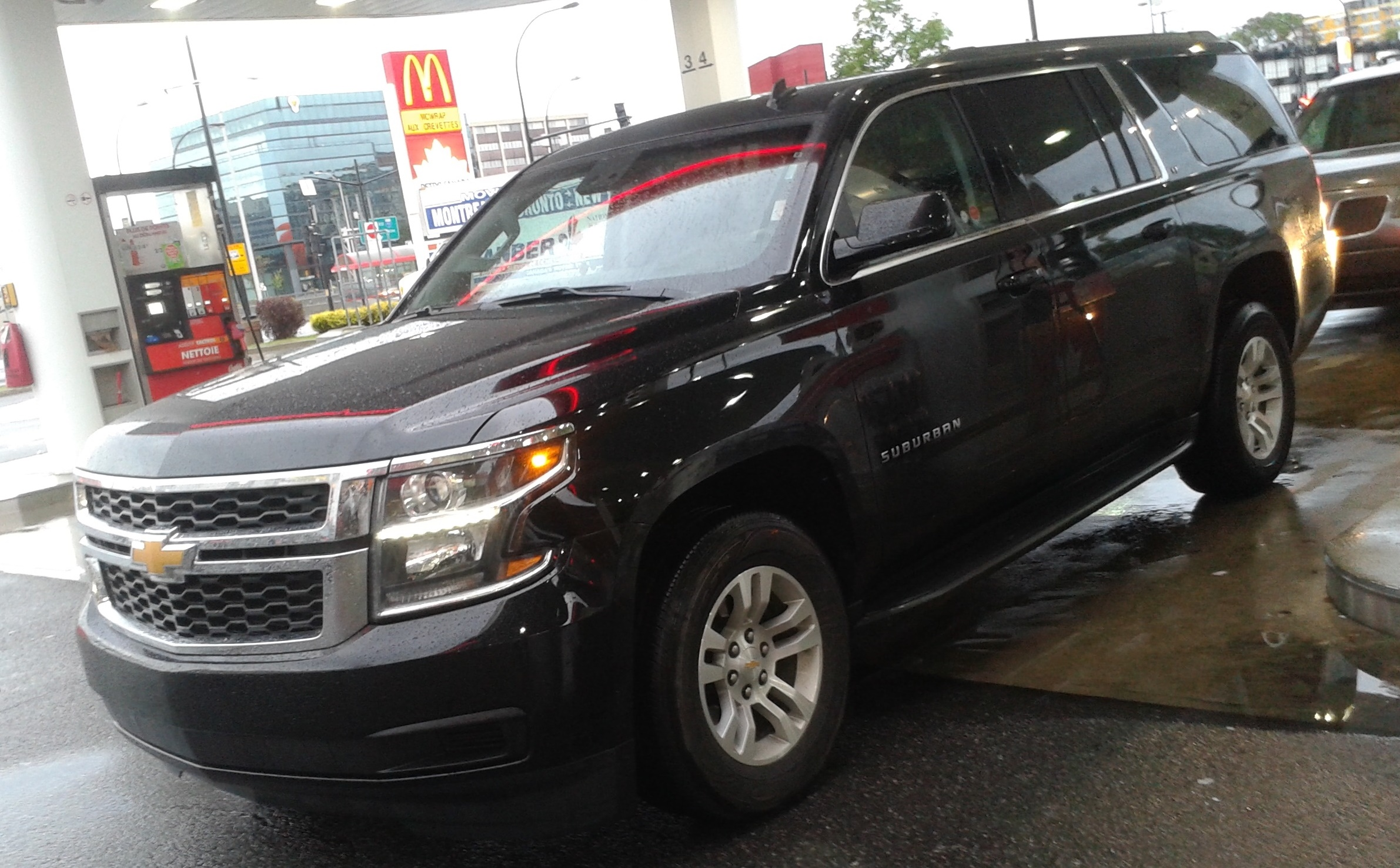 2015 Chevrolet Suburban photographed in Montreal, Quebec, Canada.